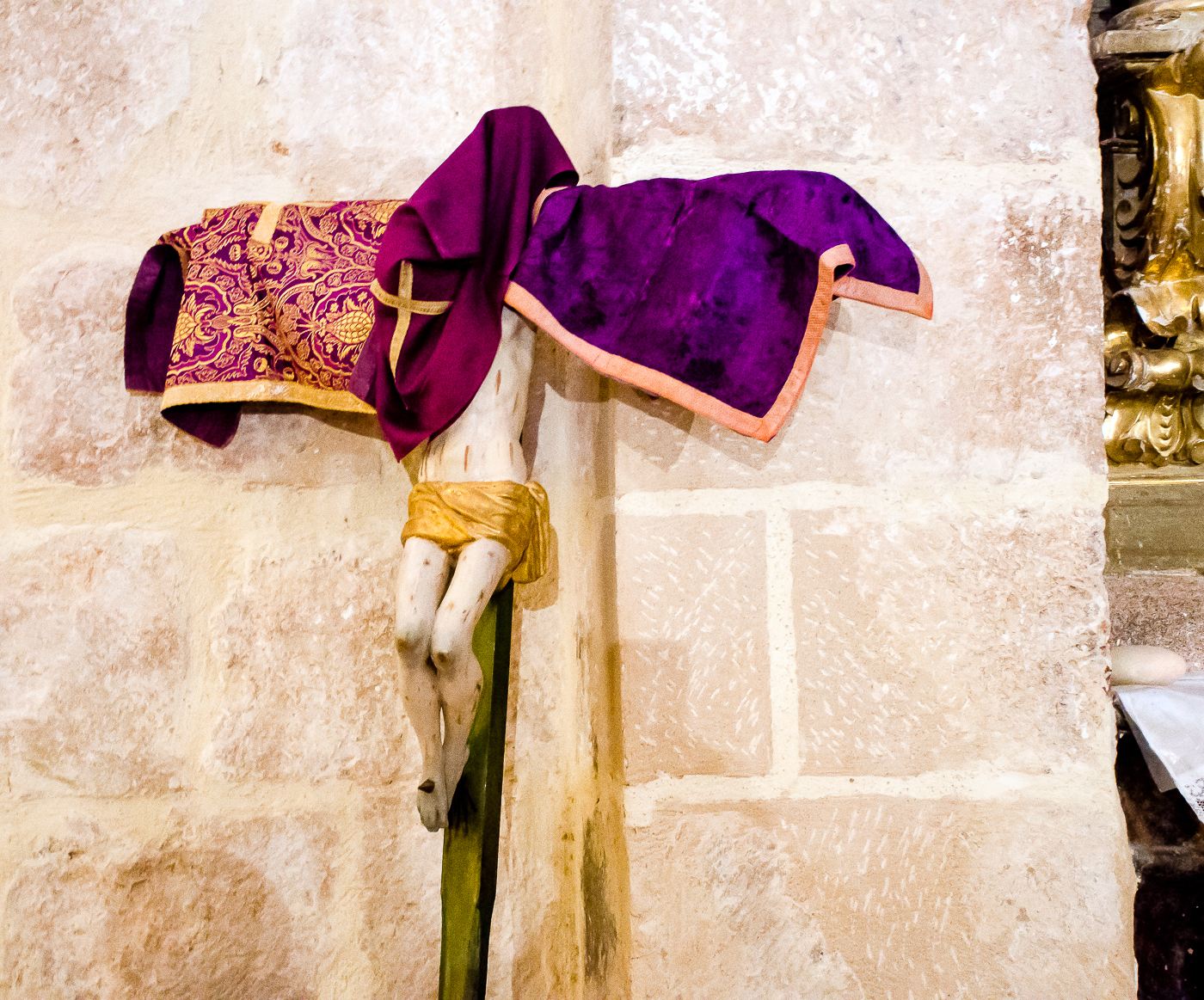 The Good Friday crucifix of Sandoval de la Reina, ready for the day rites